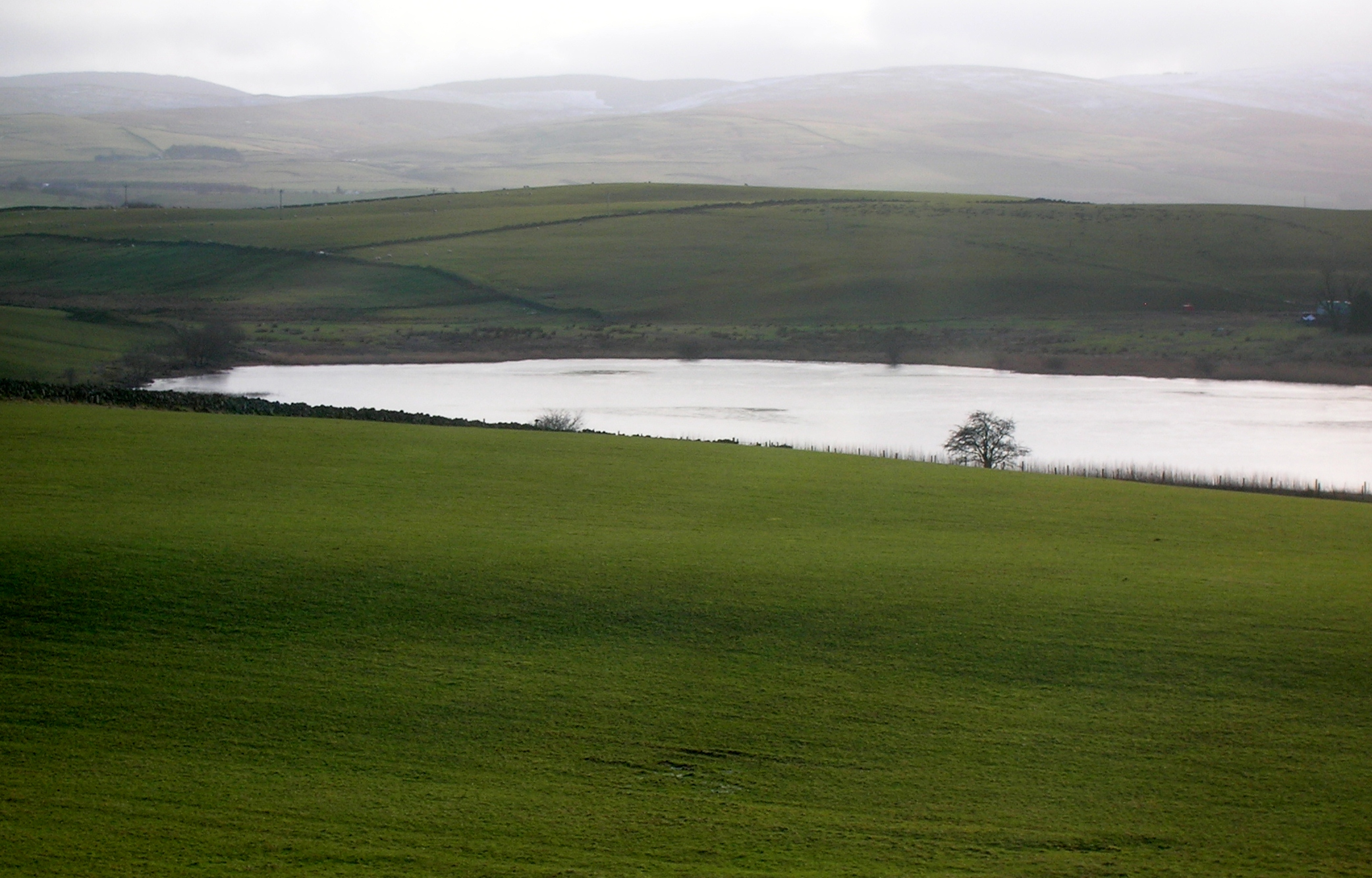 Creoch Loch, East Ayrshire, Scotland.